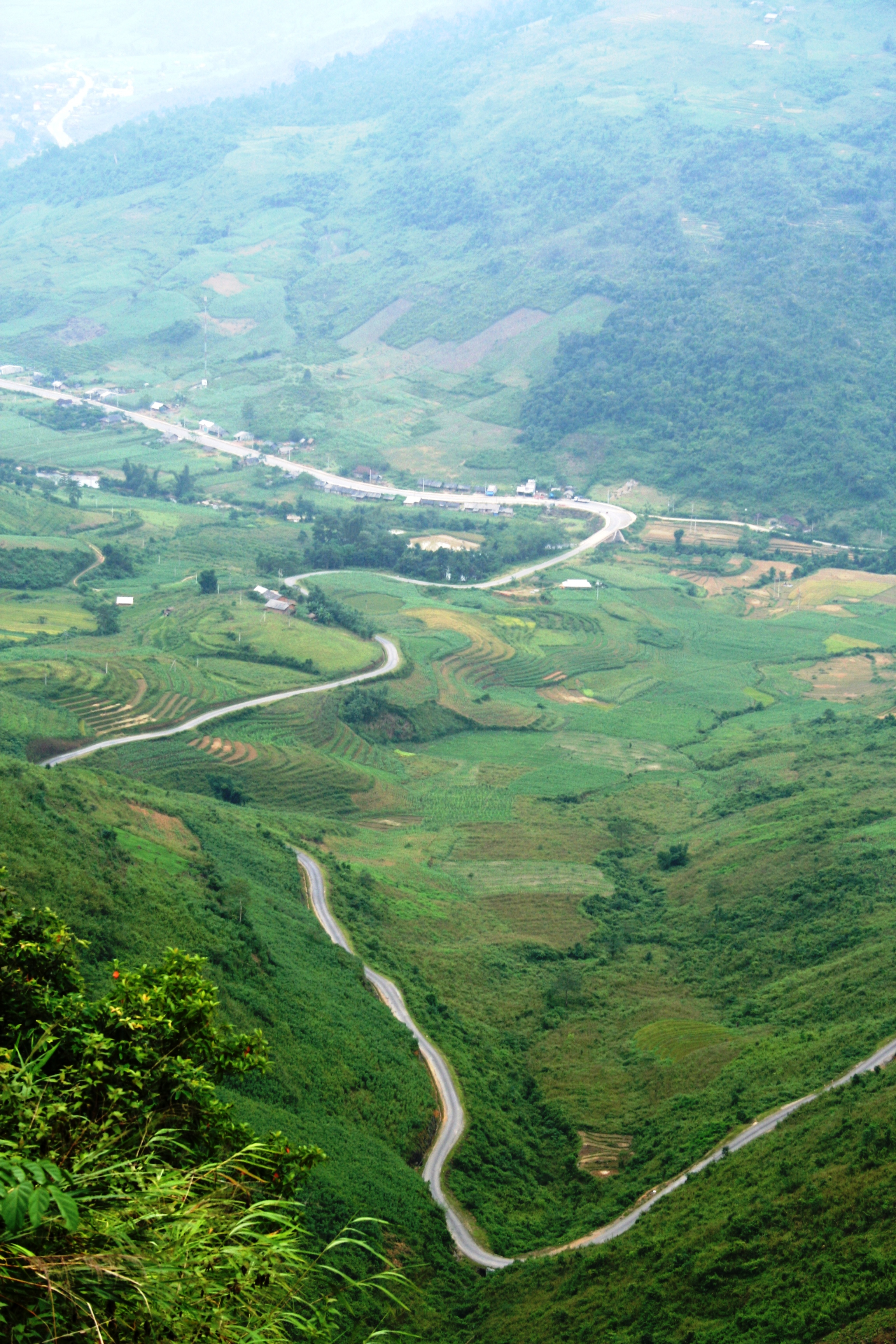 View from top of Bắc Sum Pass, on HW 4C, Ha Giang province